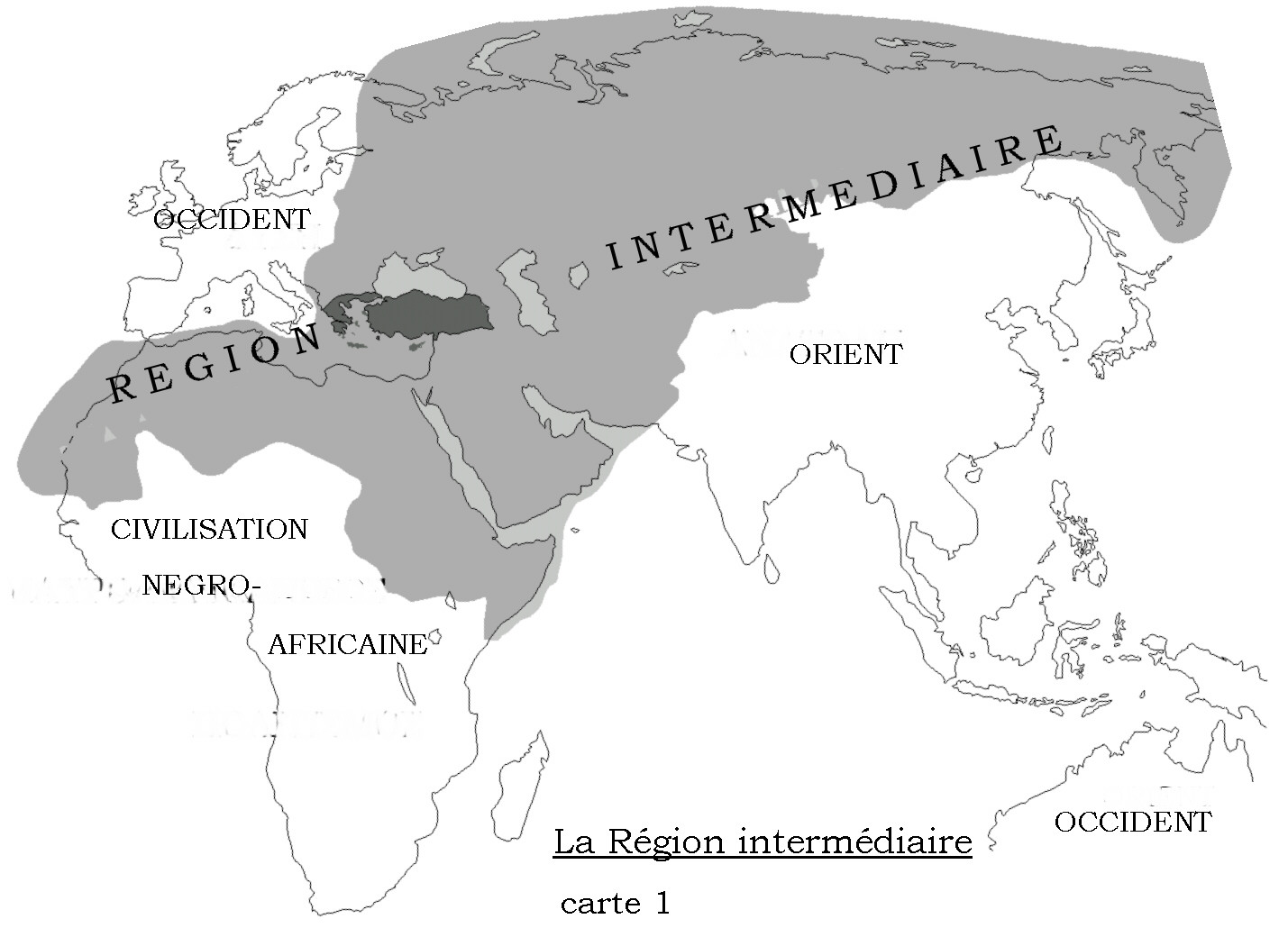 Intermediate Region in the world